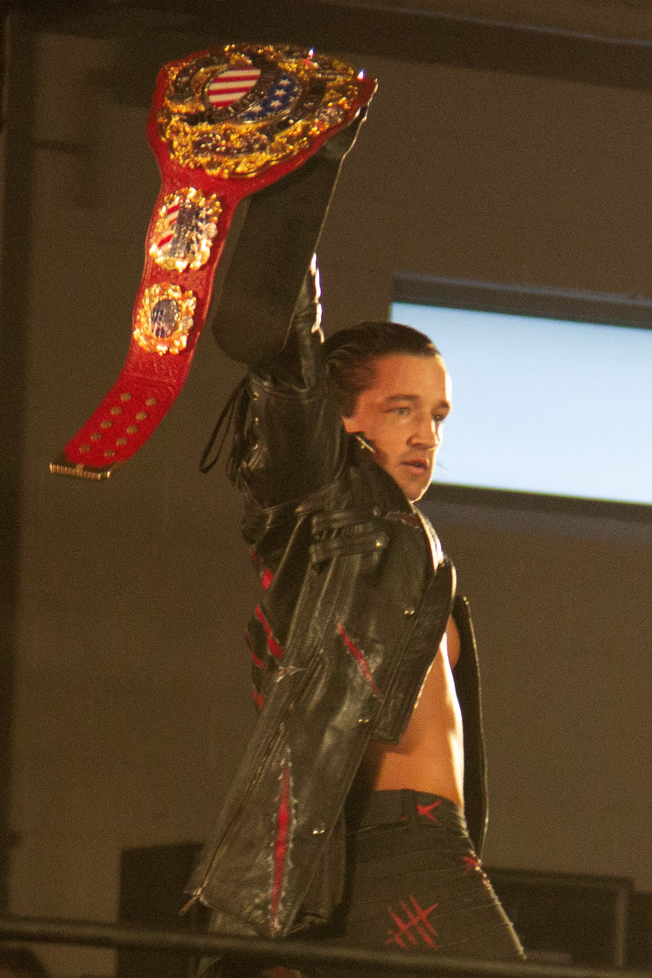 Jay White as the IWGP United States Champion at ROHxNJPW Global Wars 2018 Night 2 in May 2018.